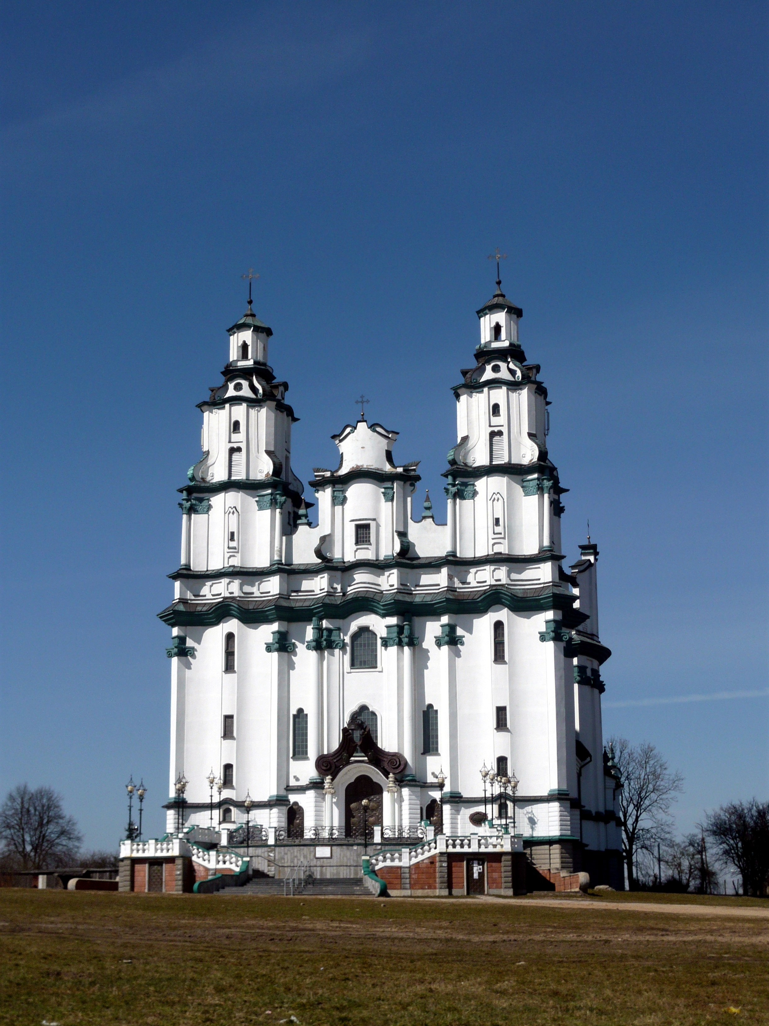 Church of the Resurrection in Bialystok. Replica of the demolished church in Berezwecz, Belarus, designed by Johann Christoph Glaubitz.